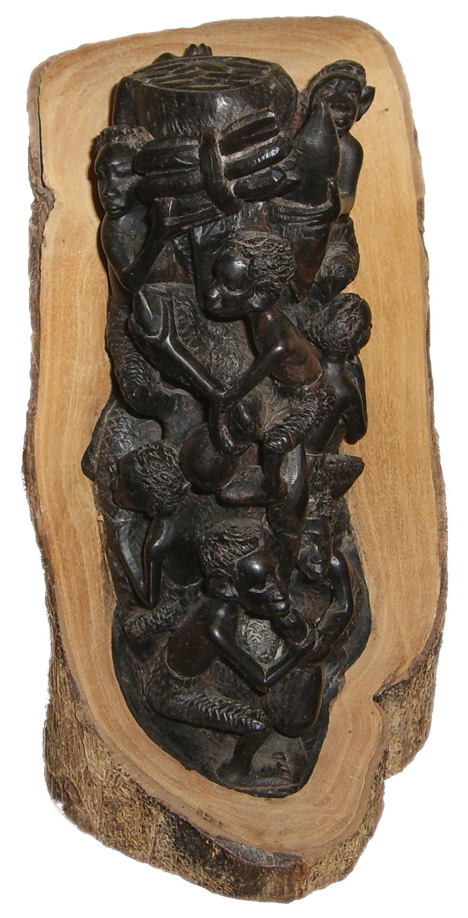 Photo by MisterMatt. The modifications have been made with The Gimp. It's an ebony sculpture. Height: 30 cm C'est de l'ébène sculpté. Hauteur : 30 cm